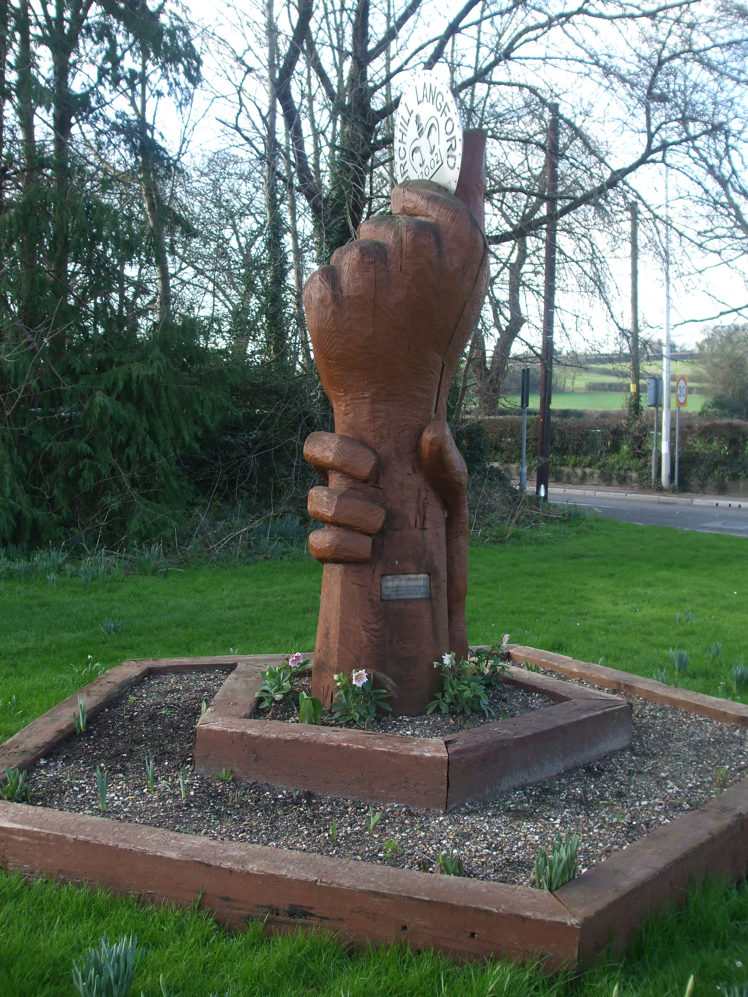 In Queen Victoria's Diamond Jubilee of 1897, a Wellingtonia tree was planted to mark it. It stood here until it became badly affected and had to be cut down. However, the remaining timber has been sculpted into "Hands of Friendship"